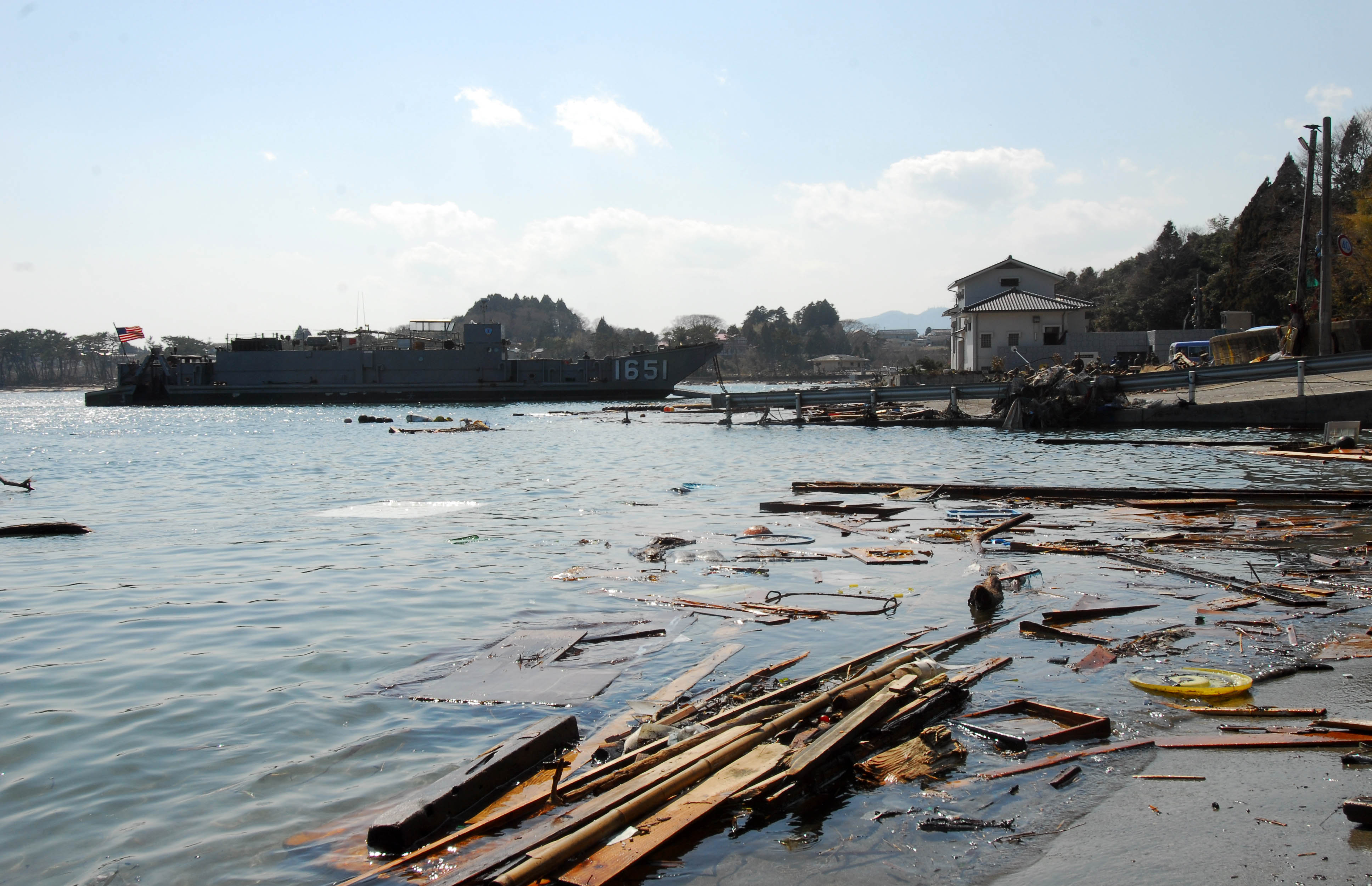 Oshima island, Kesennuma, Miyagi Prefecture, Japan (April 1, 2011). --- Landing Craft Utility (LCU) 1651, assigned to Assault Craft Unit (ACU) 1, embarked aboard the amphibious assault ship USS Essex (LHD 2) offloads the 31st Marine Expeditionary Unit (31st MEU) Marines and equipments on Oshima Island, Japan. Essex and the embarked 31st MEU is operating off the coast of Kesennuma in northeastern Japan in support of Operation Tomodachi. (U.S. Navy photo by Mass Communication Specialist 2nd Class Eva-Marie Ramsaran/Released)